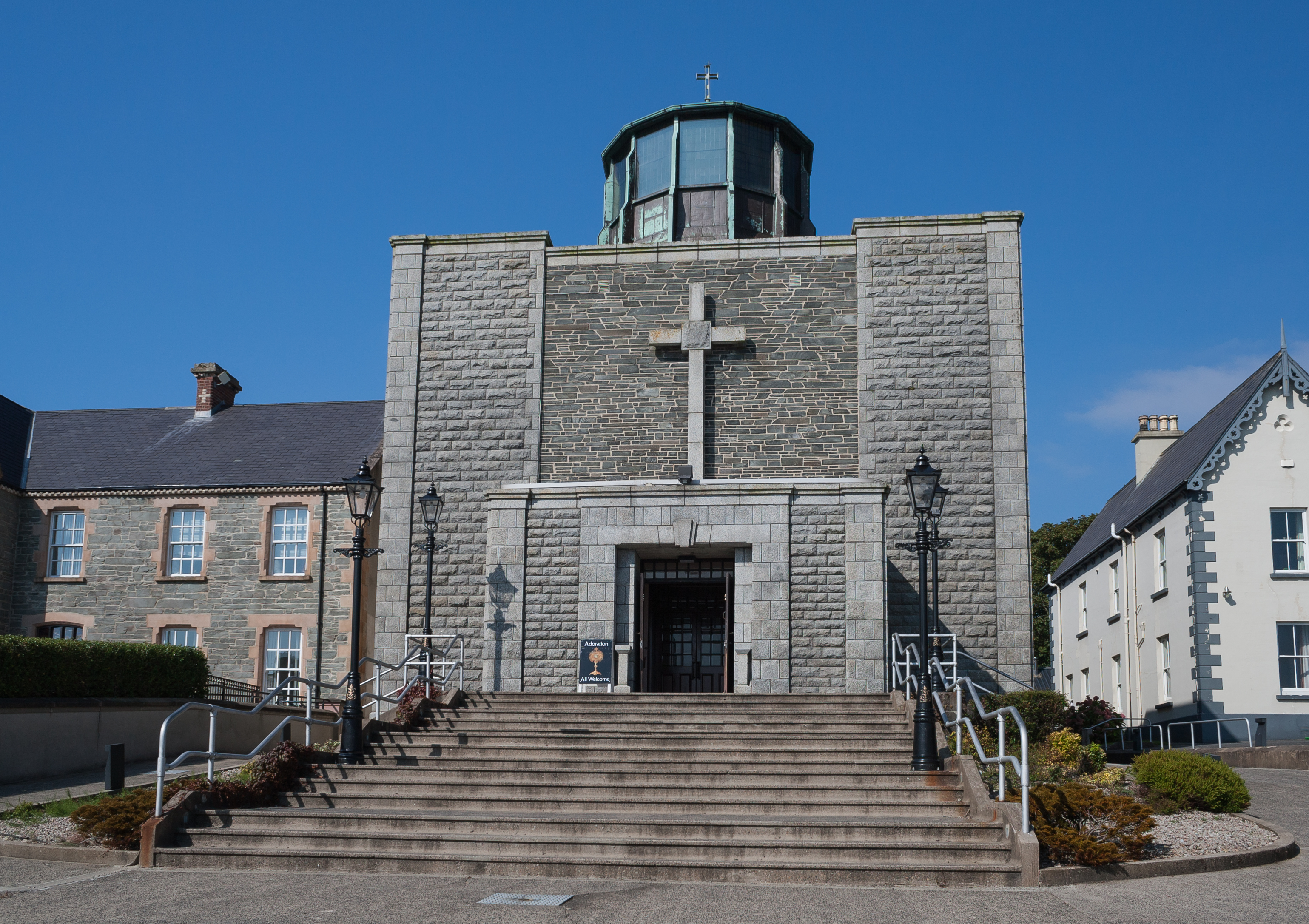 South view of the Church of Saint Pius X in Moville, built in 1958.